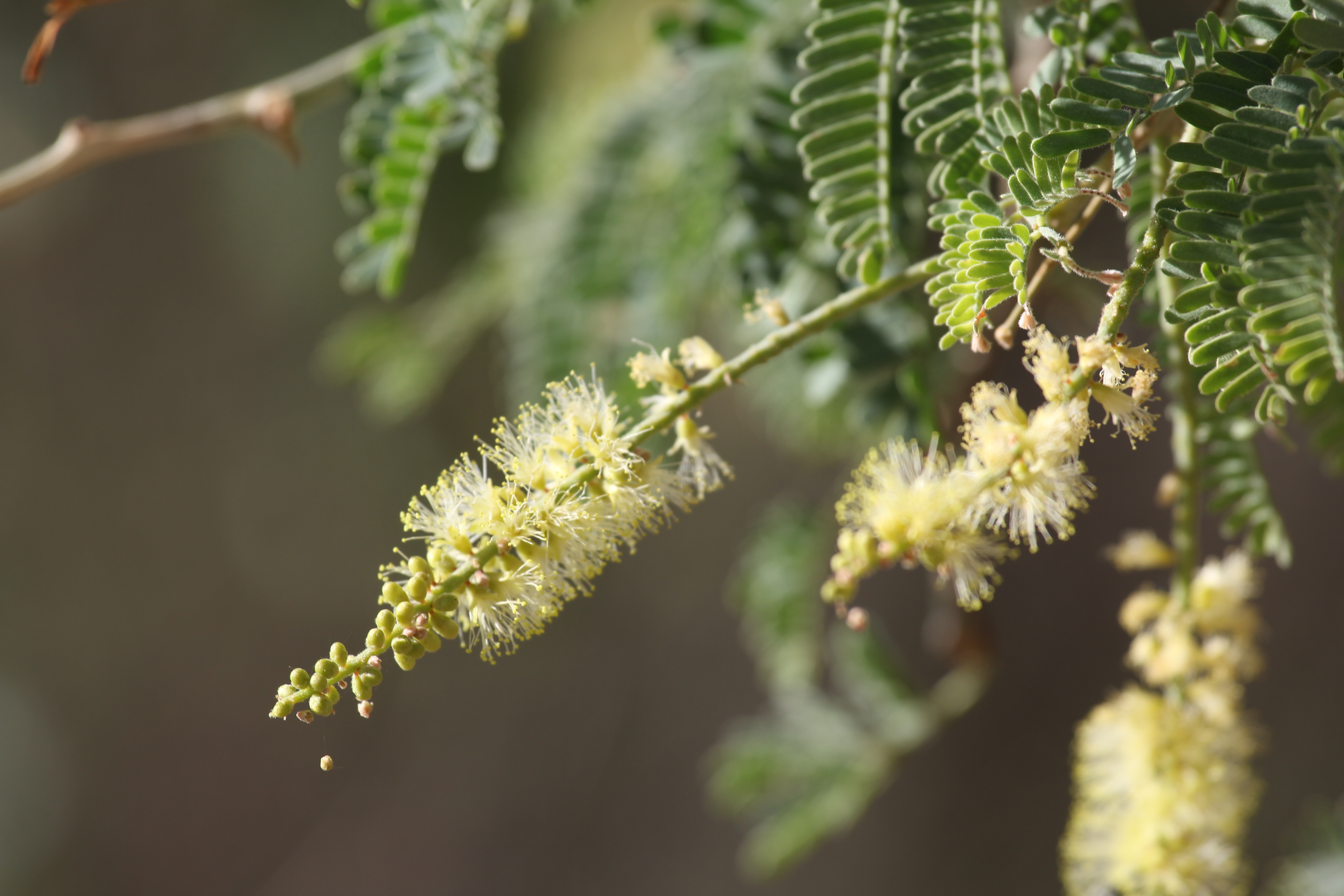 Apple-ring Acacia Français